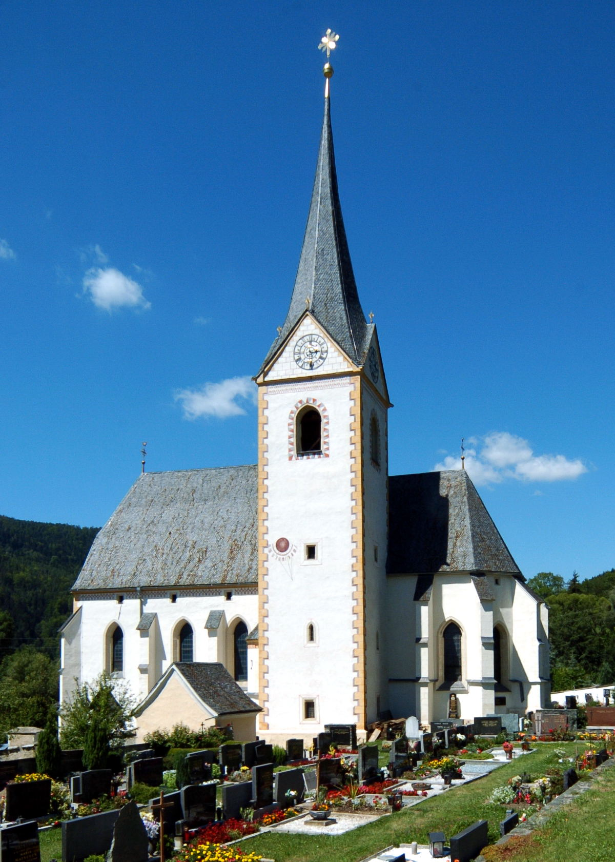 Parish church Saint John the Baptist on Sankt Johanner Strasse #26, market town Brückl, district Sankt Veit an der Glan, Carinthia, Austria, EU